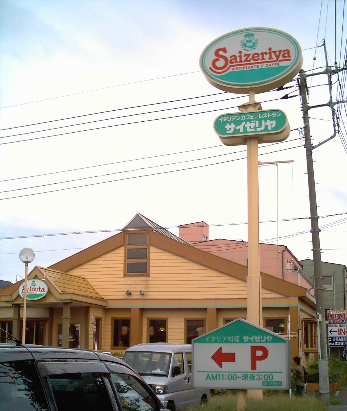 Saizeriya Restaurant in Japan photography day, 2006/9/18 photography person Tokoroten